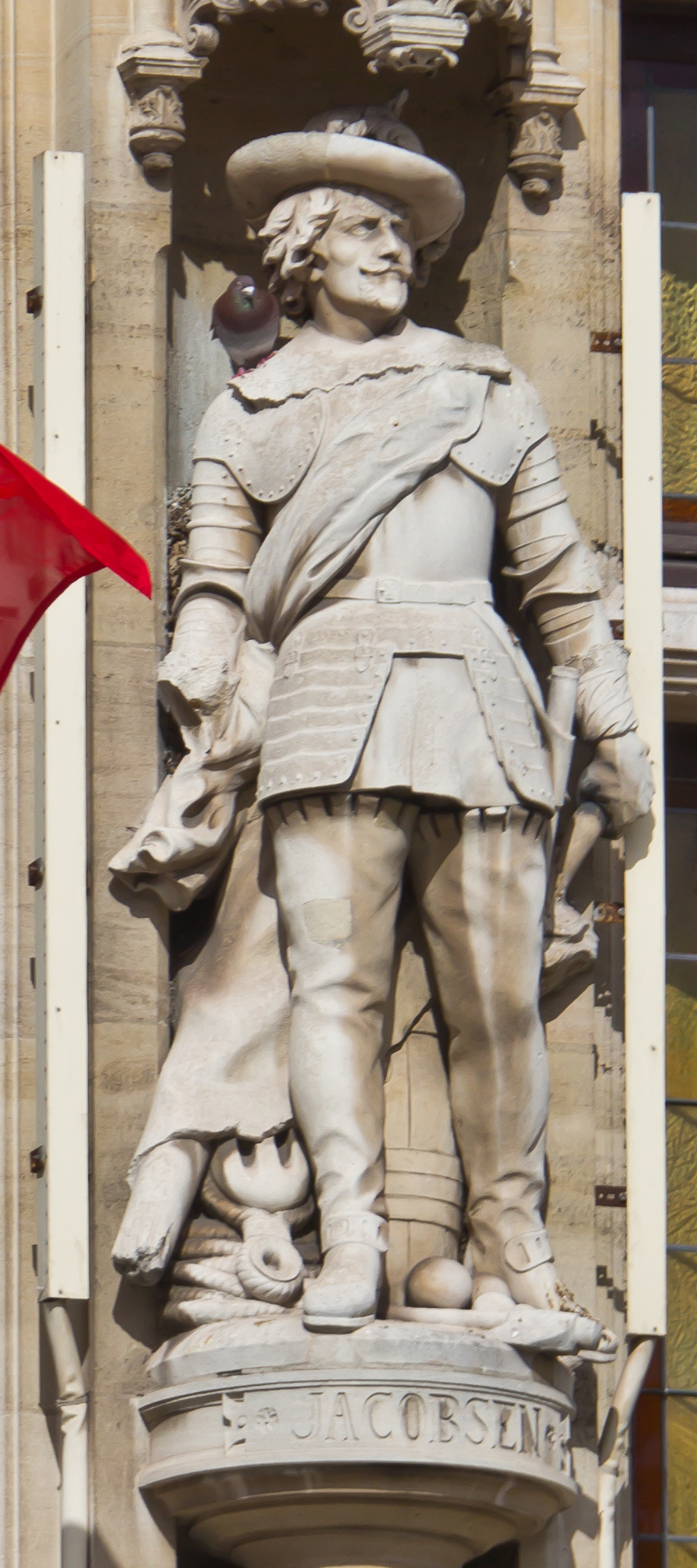 Town hall of Dunkerque - statue of Michel Jacobsen - detail